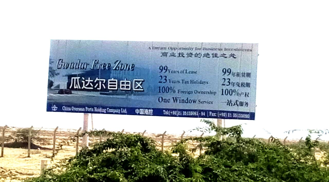 A billboard near Gwader port.